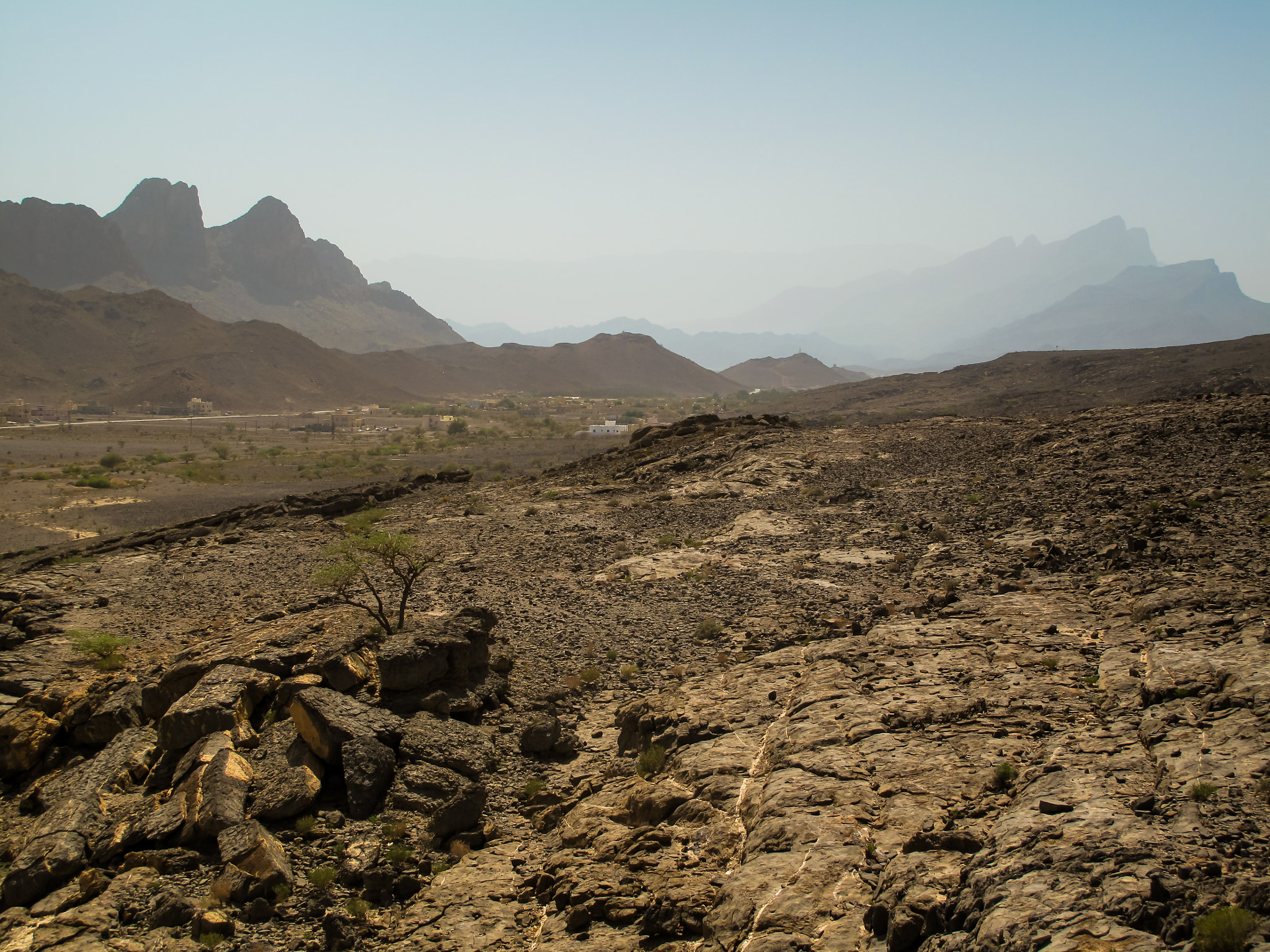 500px provided description: Landscape Outside Al Hoota [#mountain ,#valley ,#peak ,#hill ,#himalaya ,#summit ,#himalayas ,#mountain pass ,#mountain range ,#mountainscape ,#piatra craiului ,#mountain ridge]